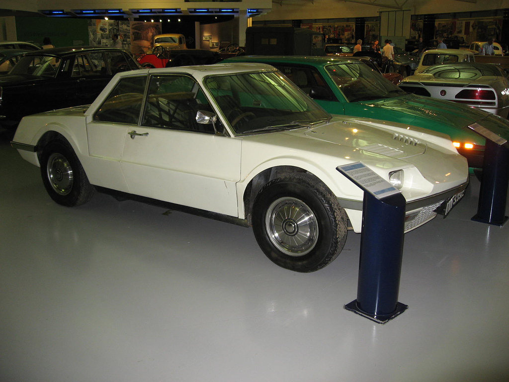 Rover sports car prototype at the British motoring heritage museum gaydon .